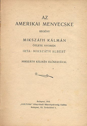 Book cover from 1918